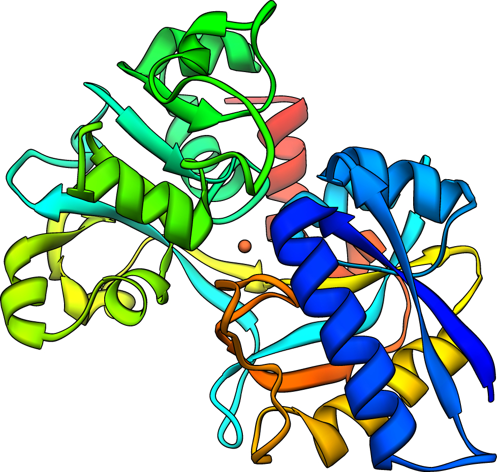 Protein structure image